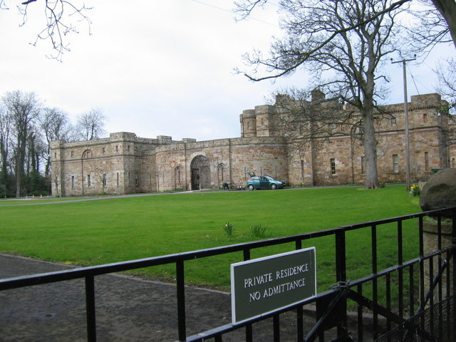 Seton House from Seton Collegiate Church grounds Seton House, see from the grounds of Seton Collegiate church.